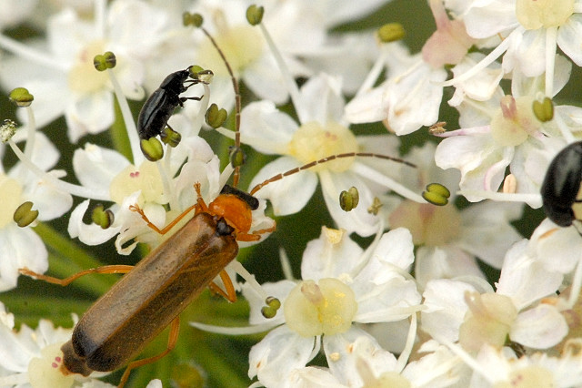 Rhagonycha nigriceps from Commanster, Belgian High Ardennes .